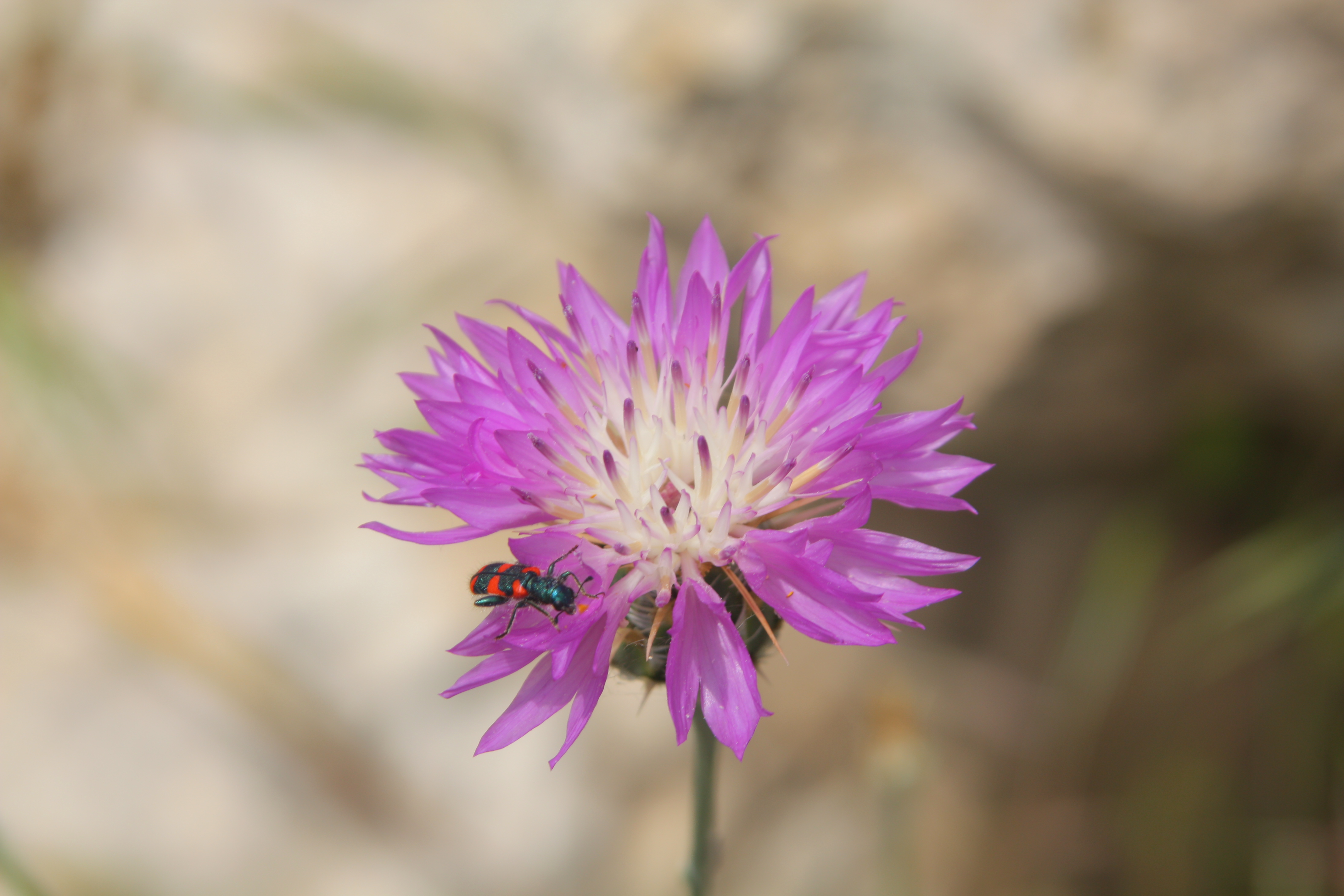 Centaurea crocodylium